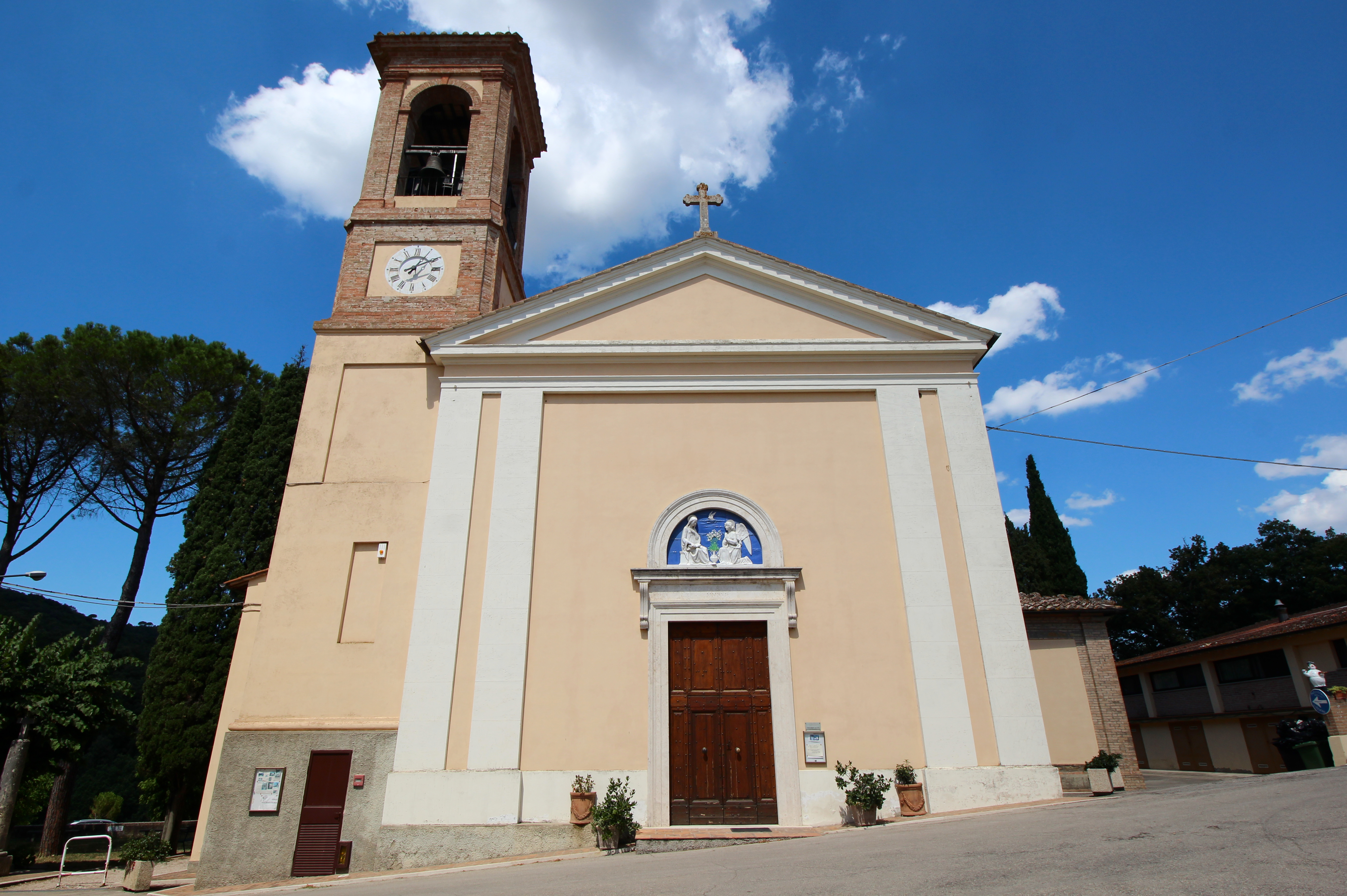 Church/Sanctuary Santuario della Madonna di Lourdes, Monte Melino (Montemelino), hamlet of Magione, Umbria, Italy